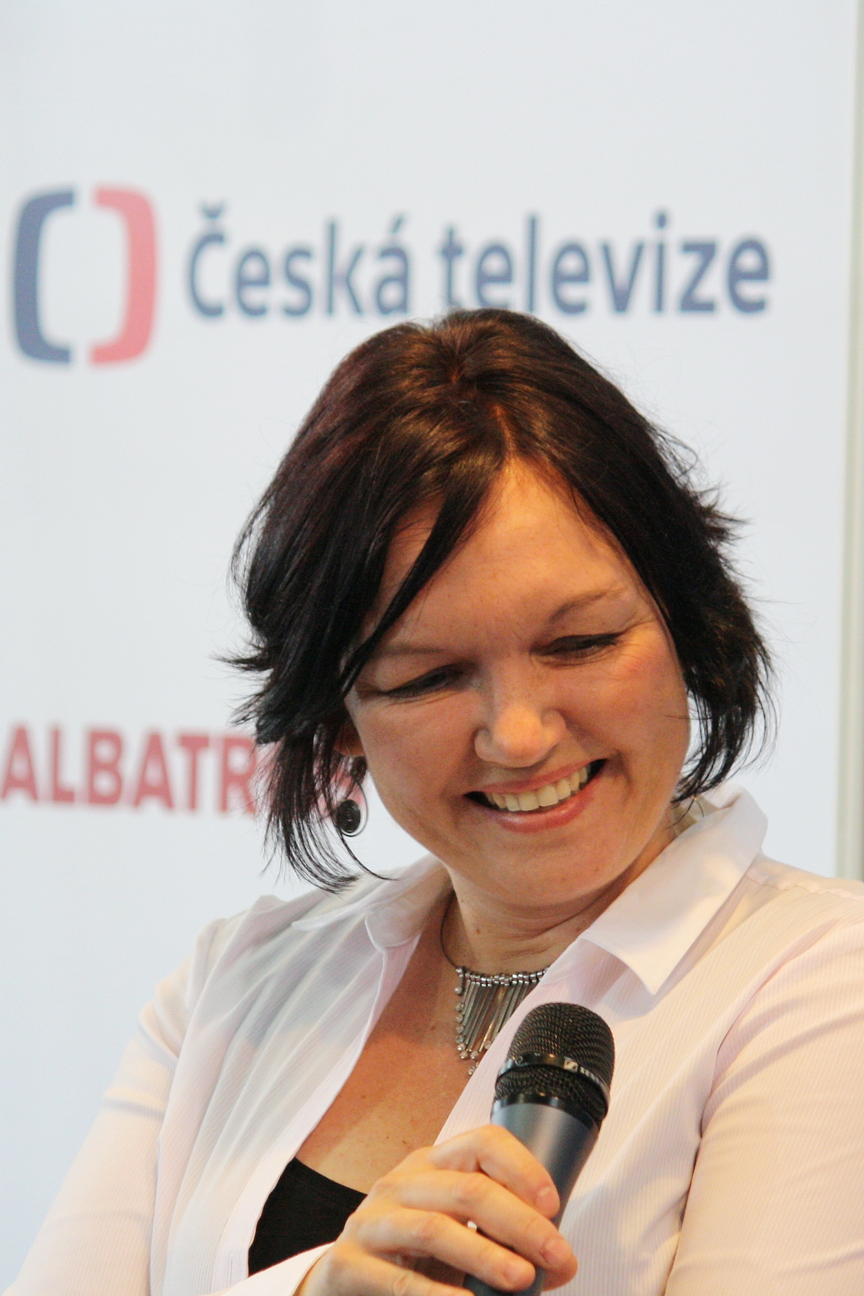 Česky: Svět knihy 2013 Personality rights warning This work depicts one or more identifiable persons. The use of depictions of living or deceased persons may be restricted by laws regarding personality rights. The extent of these restrictions depends on jurisdiction. Personality rights restrictions apply independently of copyright. Before using this content, please ensure that the intended use does not infringe any personality rights under applicable laws. You are solely responsible for ensuring that you do not infringe someone else's personality rights. See our general disclaimer.